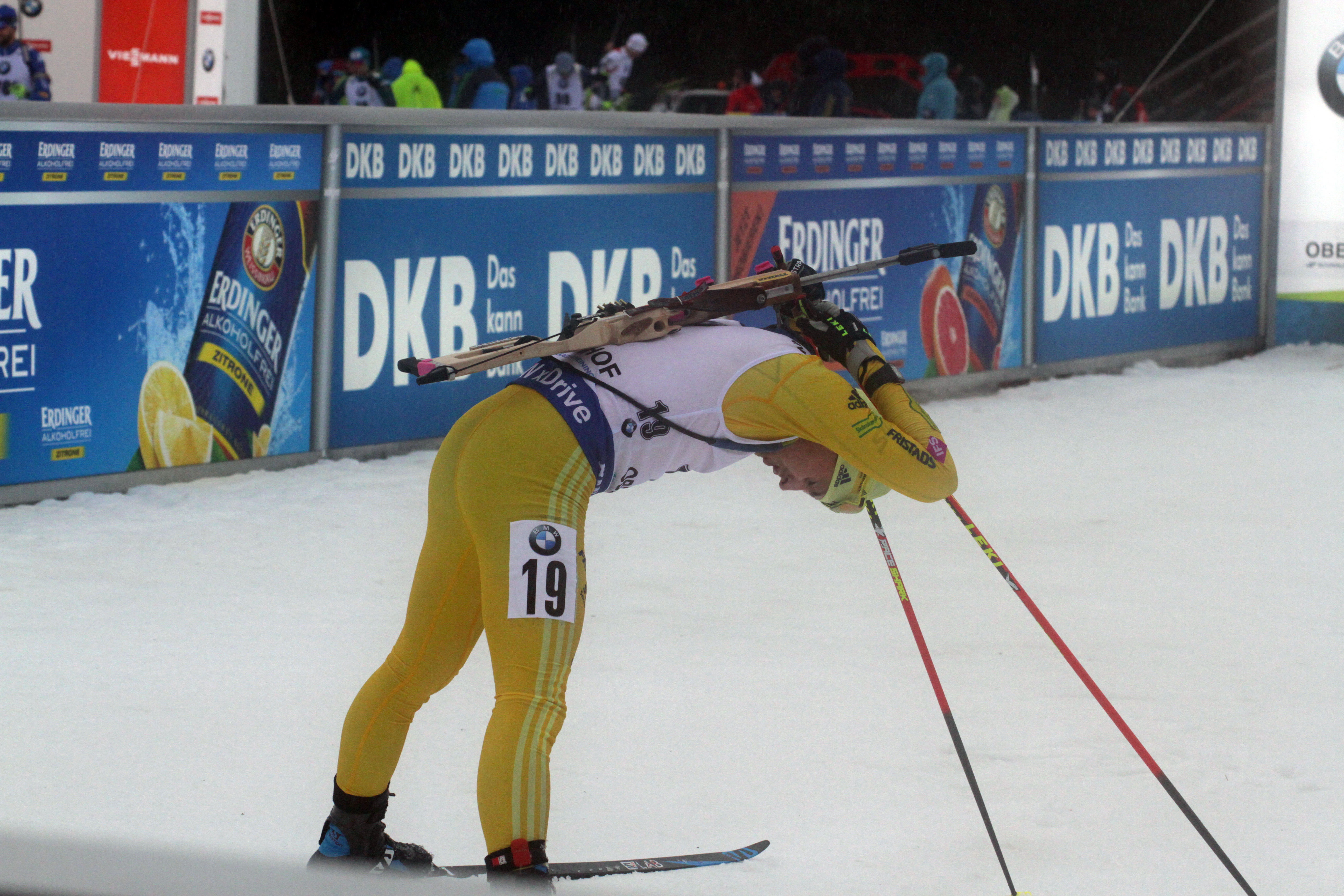 2018 Oberhof Biathlon World Cup - Sprint Men